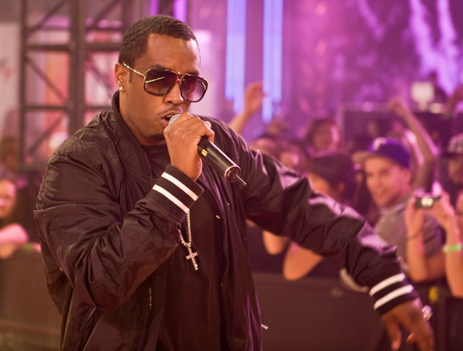 Diddy performing at the eTalk Festival Party, during the Toronto International Film Festival.